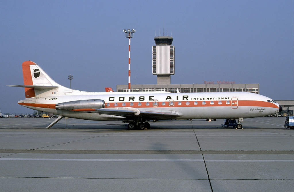 A Sud Aviation Caravelle of Corse Air International at Basle/Mulhouse Airport